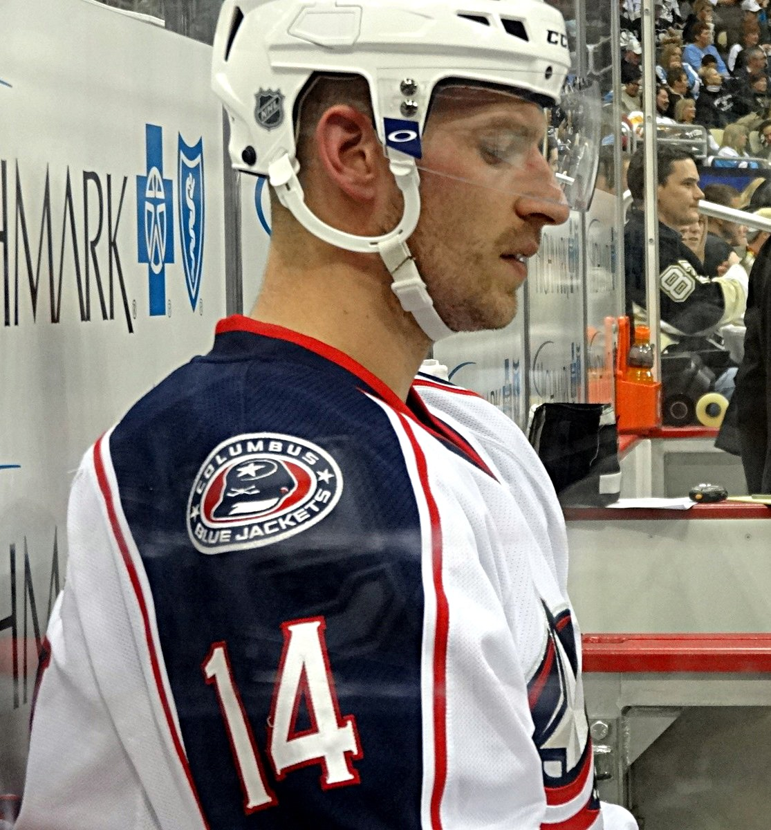 Columbus Blue Jackets forward Blake Comeau in the penalty box during a game against the Pittsburgh Penguins, November 1, 2013, at Consol Energy Center in Pittsburgh, PA.